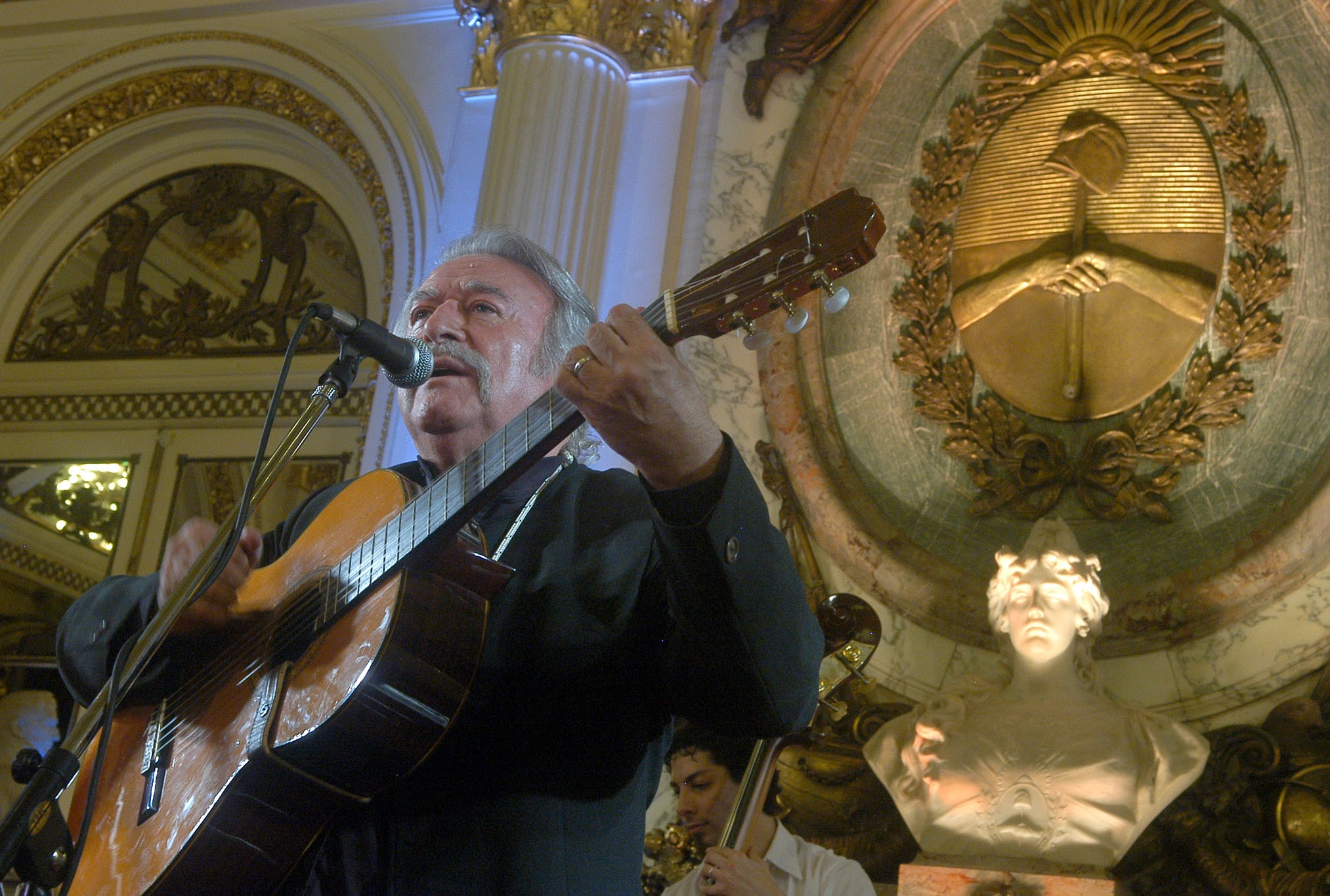 César Isella. Singing at the Pink House (White Hall). Buenos Aires, Argentina.